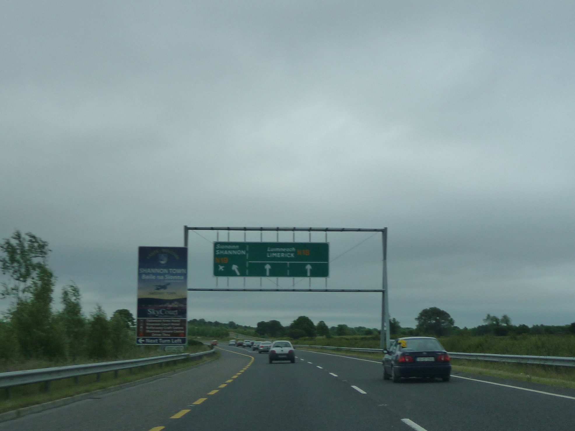 Travelling South from Ennis on the N18 near the Shannon Town/Airport exit. This section is a motorway redesignation candidate.